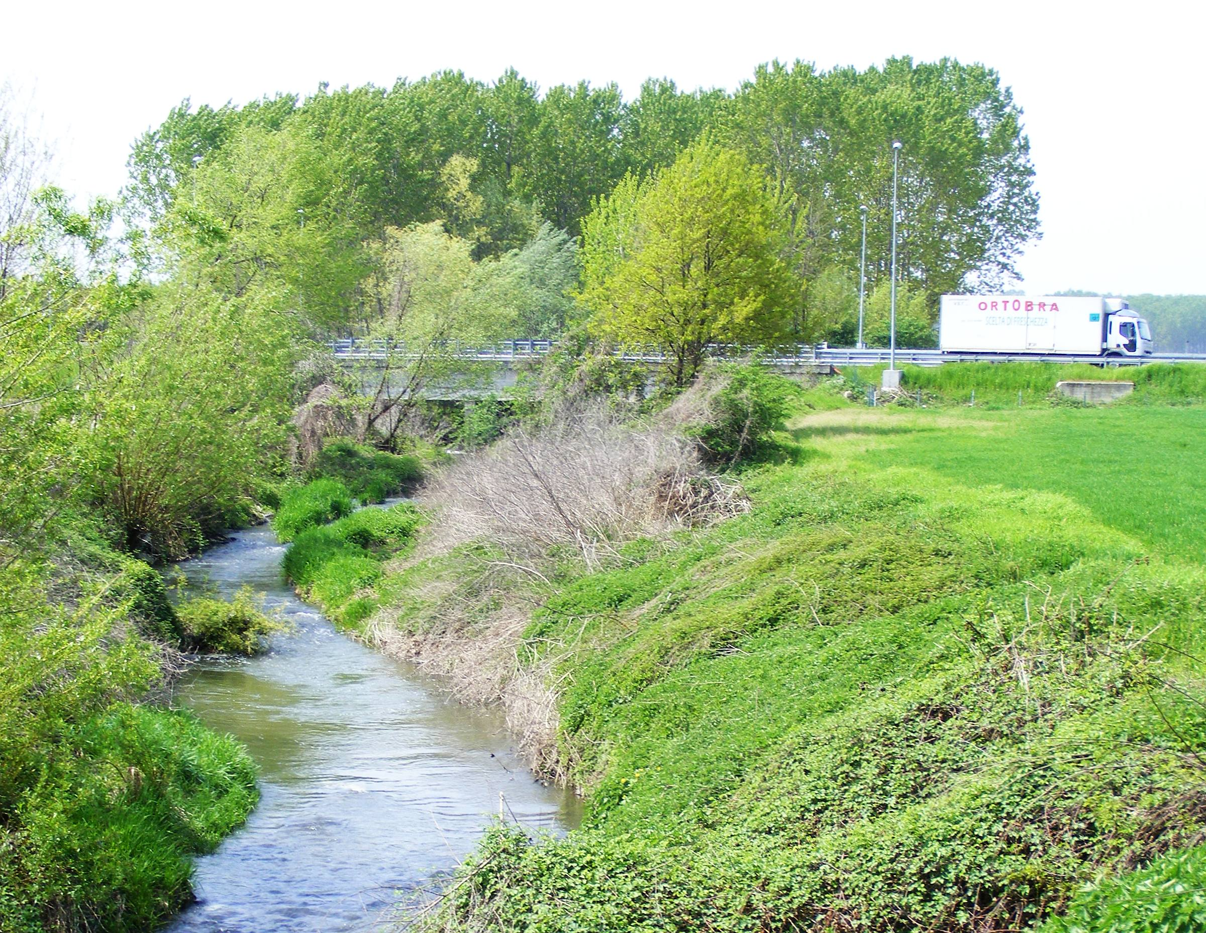 A55 motorway Del Pinerolese crossing Rio Torto (TO, Italy)